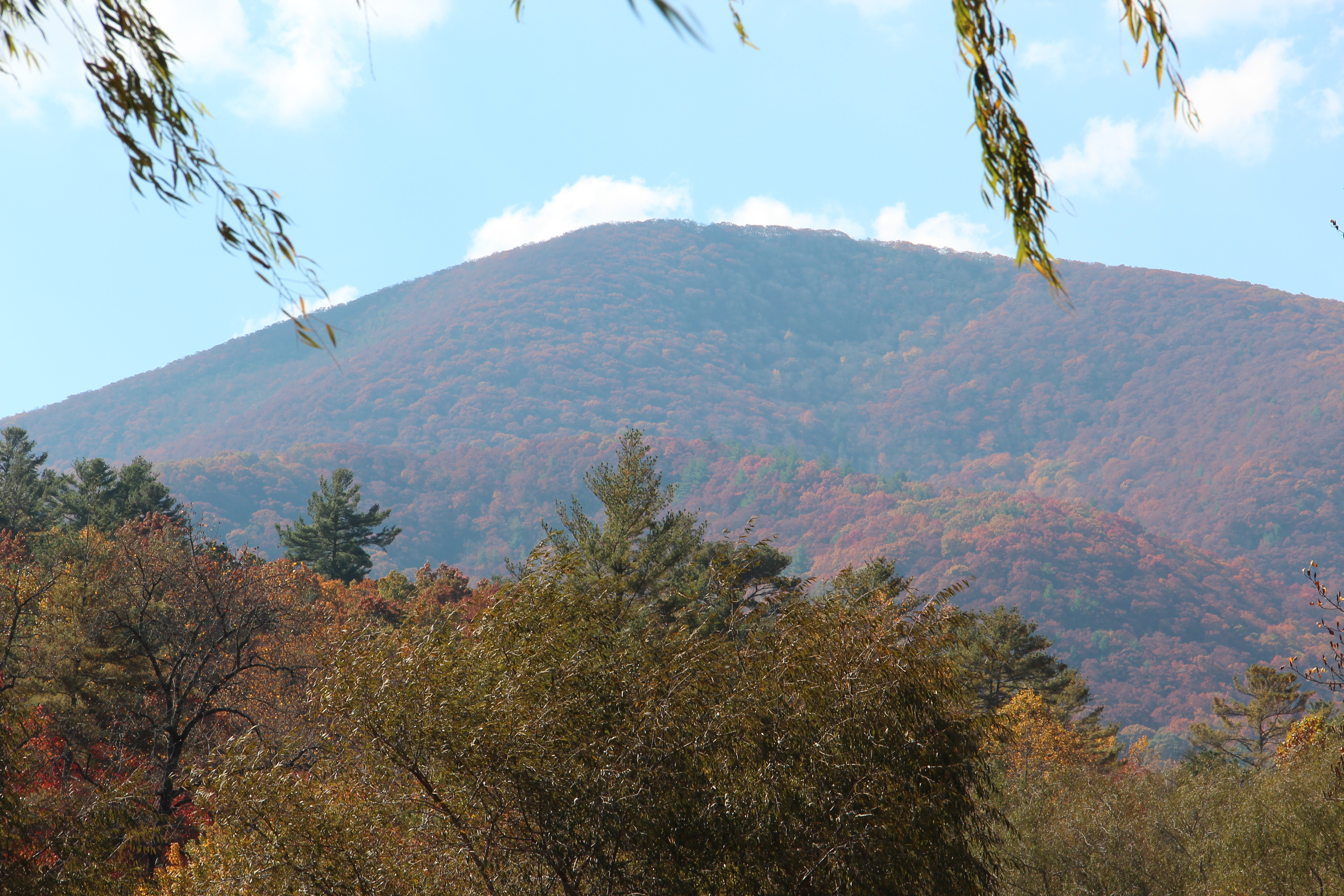 Blood Mountain viewed from Vogel State Park